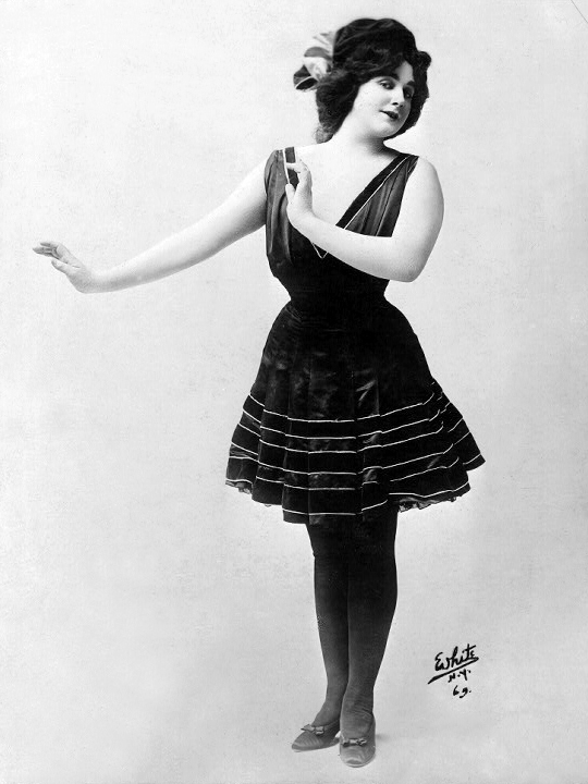 Photograph of Julian Eltinge in the Broadway production of the musical The Fascinating Widow (1911) Published on the front cover of the sheet music for "Don't Go In the Water, Daughter (Julian Eltinge's Bathing Song)", published in 1911